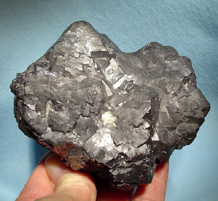 Galena Locality: Blackdene Mine, Ireshopeburn, Weardale, North Pennines, County Durham, England, UK (Locality at ) Size: 11.4 x 8.8 x 6.8 cm. Lustrous, metallic-gray galena octahedrons to 4.0 cm comprise this fine cabinet piece from the Blackdene Mine of England. This fine specimen is complete-all-around and is undamaged. Classic material from a classic locale in Weardale. Ex. David Hacker and Tarnowski Collections. Weighs 4.9 pounds or 2.2 kilograms.